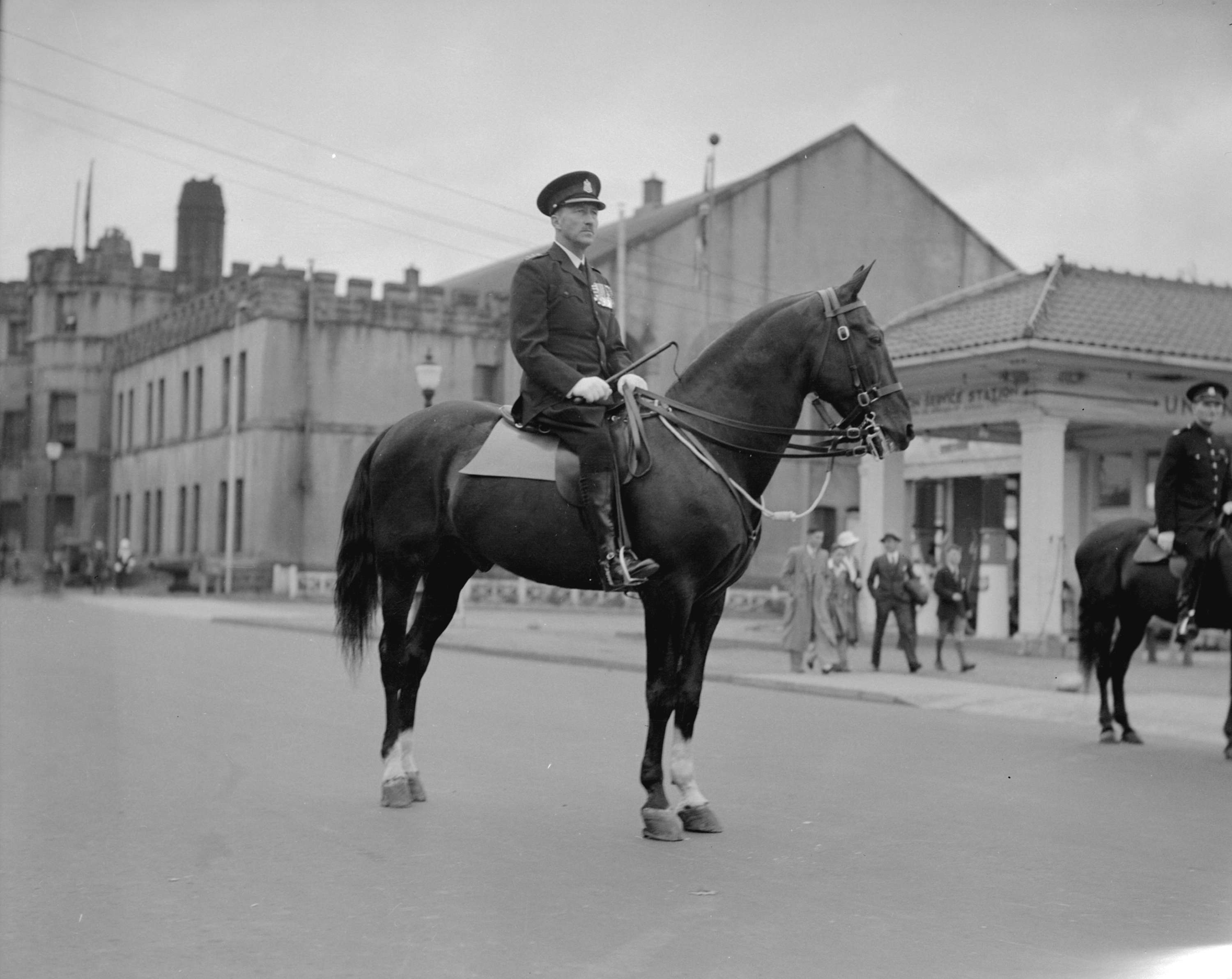 Chief of Police, "W.W. Foster" from the City of Vancouver Archives online database, available from DATE: 1 July 1935 ITEM IDENTIFIER: CVA 99-2861 EXTENT: 1 photograph: b&w nitrate negative; 9 x 12 cm PART OF FONDS: Stuart Thomson fonds GEOGRAPHIC LOCATION: Vancouver (B.C.) SUBJECT TERMS: Police on horses PHOTOGRAPHER/STUDIO: Thomson, Stuart